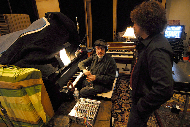 Anthony Marinelli and Dr. John from My Sexiest Year. Seattle, WA at Studio X, 2007.